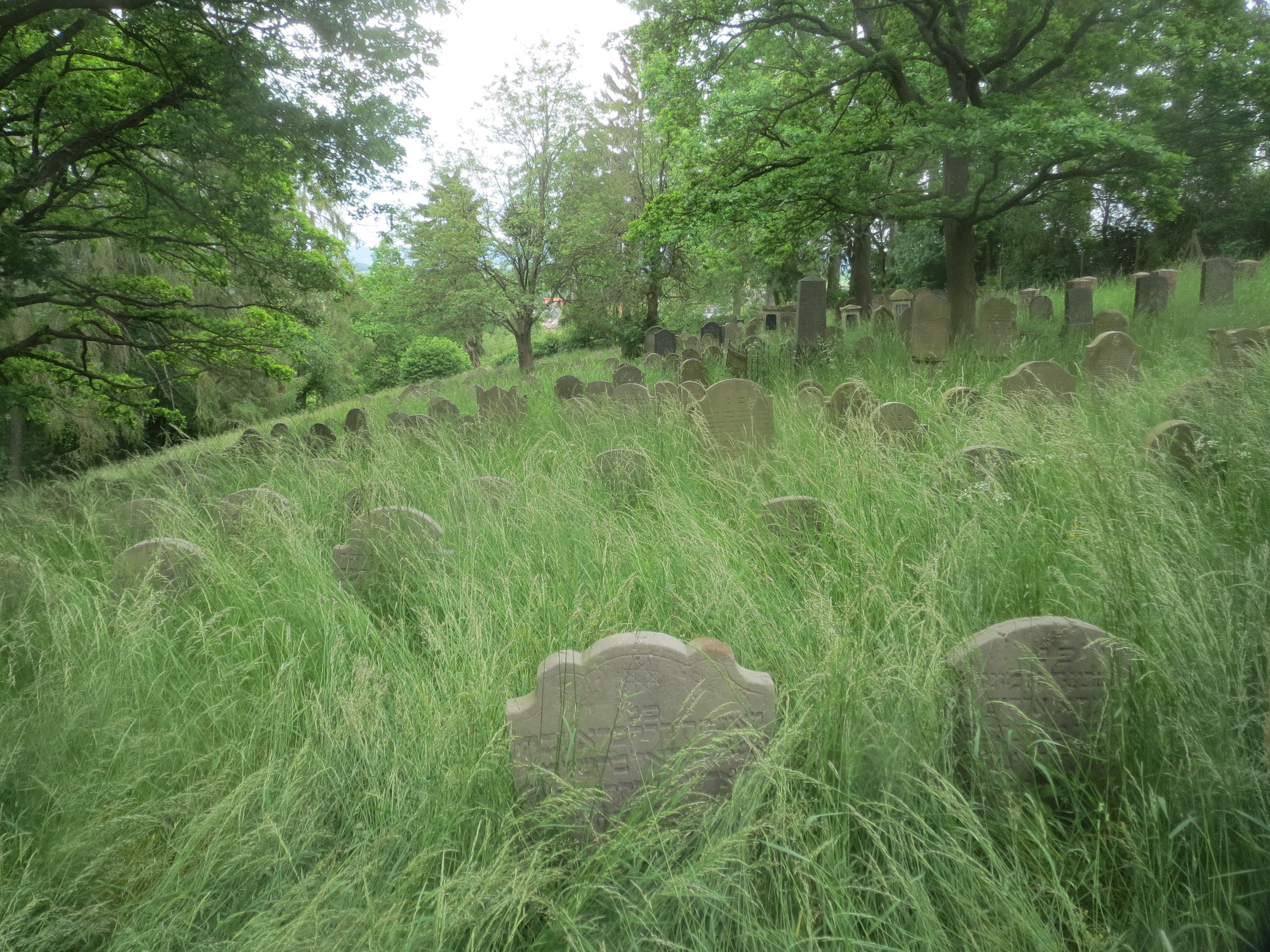 Jewish cemetery Abterode 1